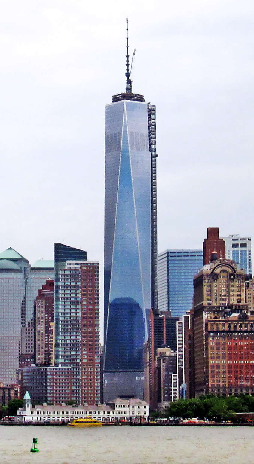 Construction of One WTC on 16 June 2013 as seen from the Staten Island Ferry